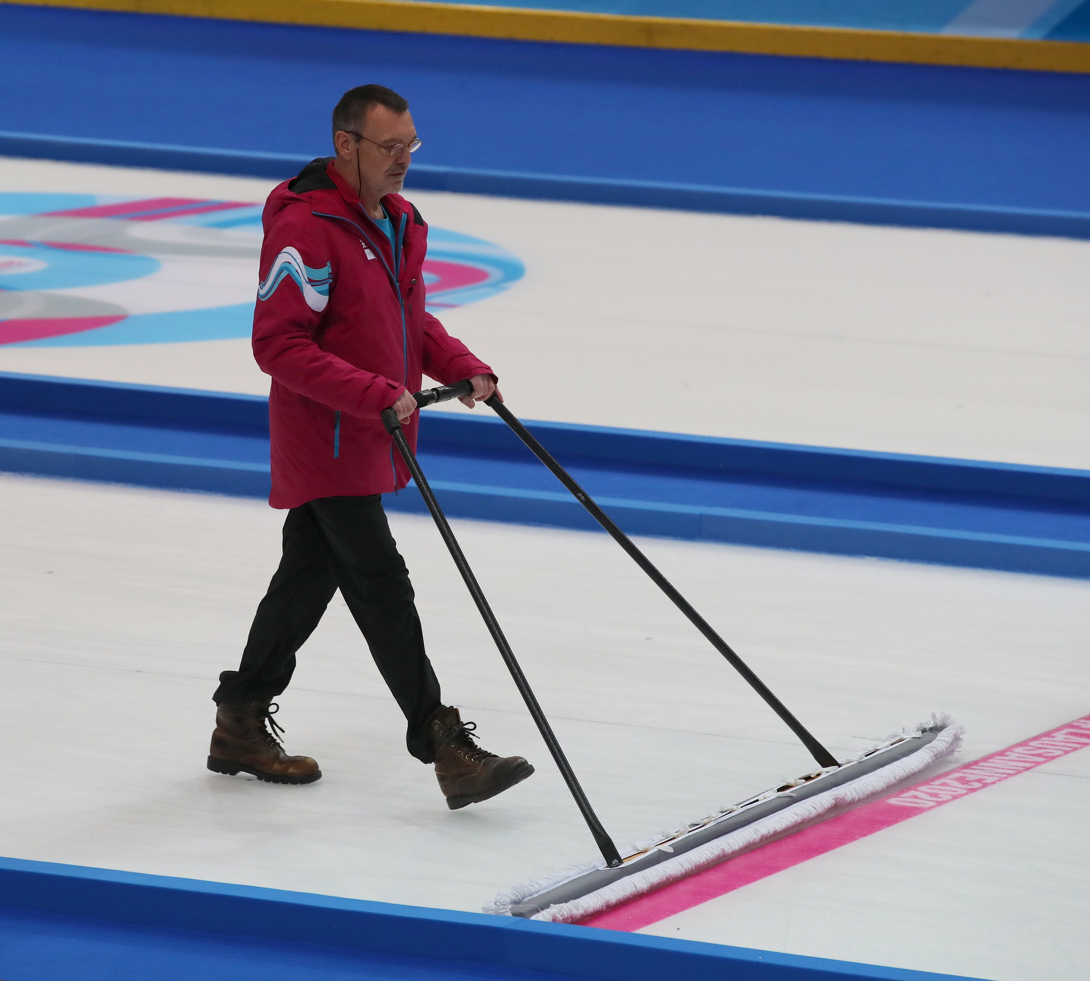 Curling Mixed Team Gold Medal Match at the 2020 Winter Youth Olympics in Lausanne on 16 January 2020: Norway vs. Japan.